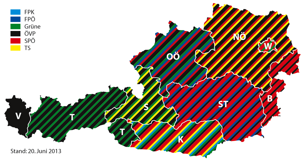 Governments of the Austrian states, June 20103